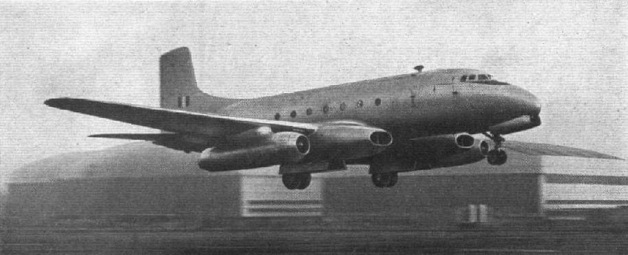 Avro Ashton Mk 3 WB493 with Bristol-Siddely Olympus turbojets tinunderwing nacelles outboard of the original Nene pods